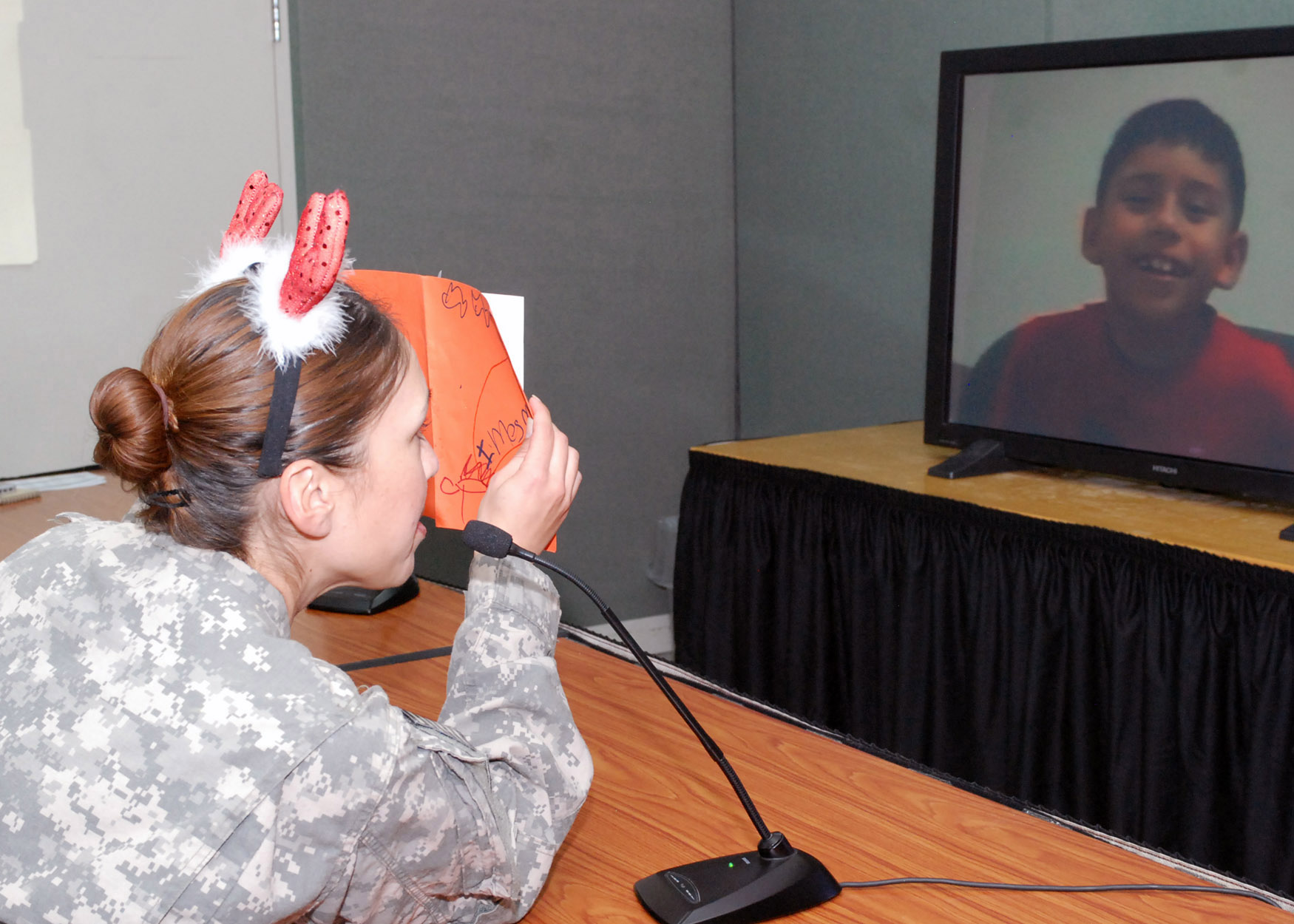 Staff Sgt. Patricia Sarabia, a Dallas, Texas, native who works in the G6 signal section, Division Special Troops Battalion, 4th Infantry Division, Multi-National Division - Baghdad, shows her son Simon, who attends Meadows Elementary School on Fort Hood in Killeen, Texas, a card that she received from in the mail with him over video teleconference on Dec. 18. See more at Army.mil